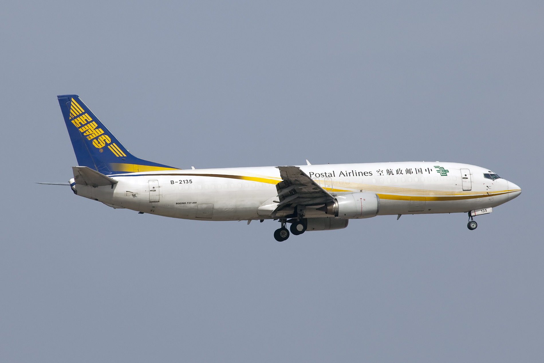 Seoul-Incheon